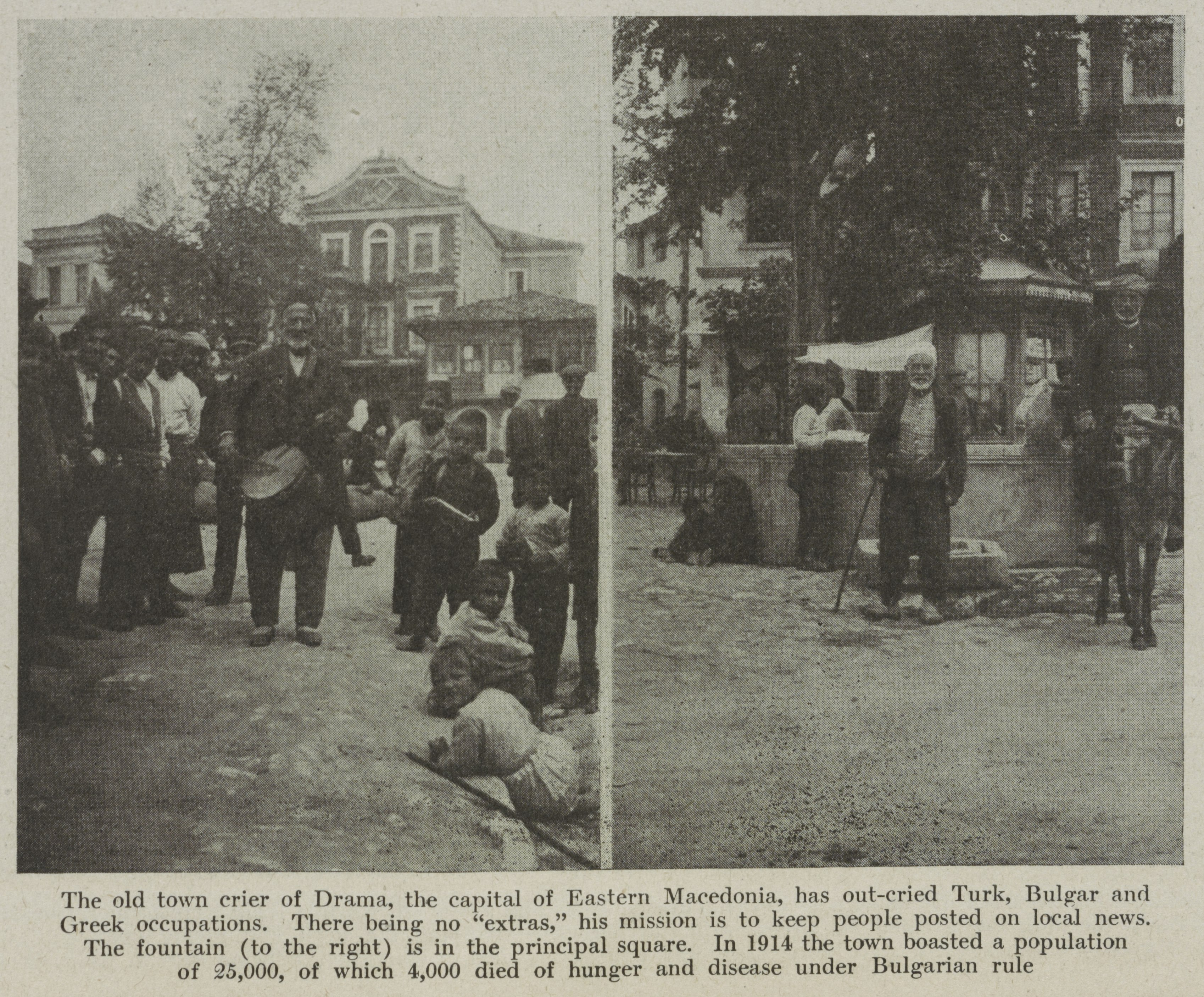 Title: The old town crier of Drama, the capital of Eastern Macedonia, has out-cried Turk, Bulgar and Greek occupations There being no "extras," his mission is to keep people posted on local news. The fountain (to the right) is in the principal square. In 1914 the town boasted a population of 25,000, of which 4,000 died of hunger and disease under Bulgarian rule. Abstract/medium: 2 photomechanical prints on 1 p.